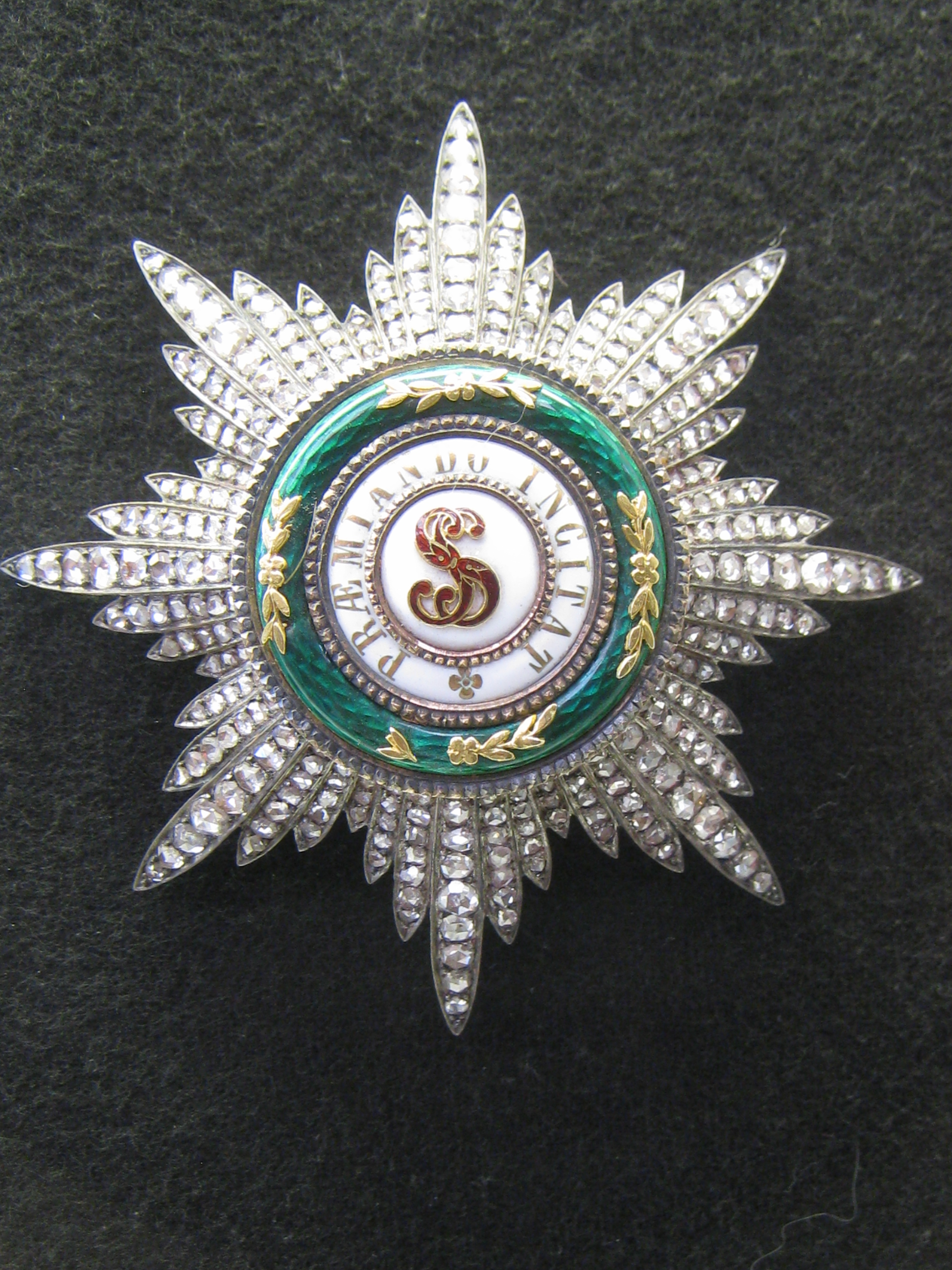 Order of St. Stanislas, First Class (Russia), from the collection of Don Pedro Christopherson. In the Fram Museum, Oslo, Norway.